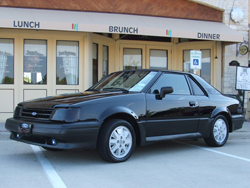 I created this image, I own the copyright, and I am putting on Wikipedia for use here.